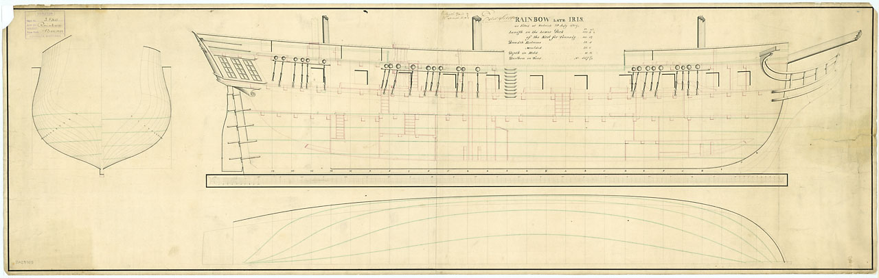 RAINBOW 1809 lines & profile